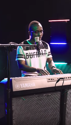 Brymo performing "Let Us Be Great" on NdaniSessions in November 2018